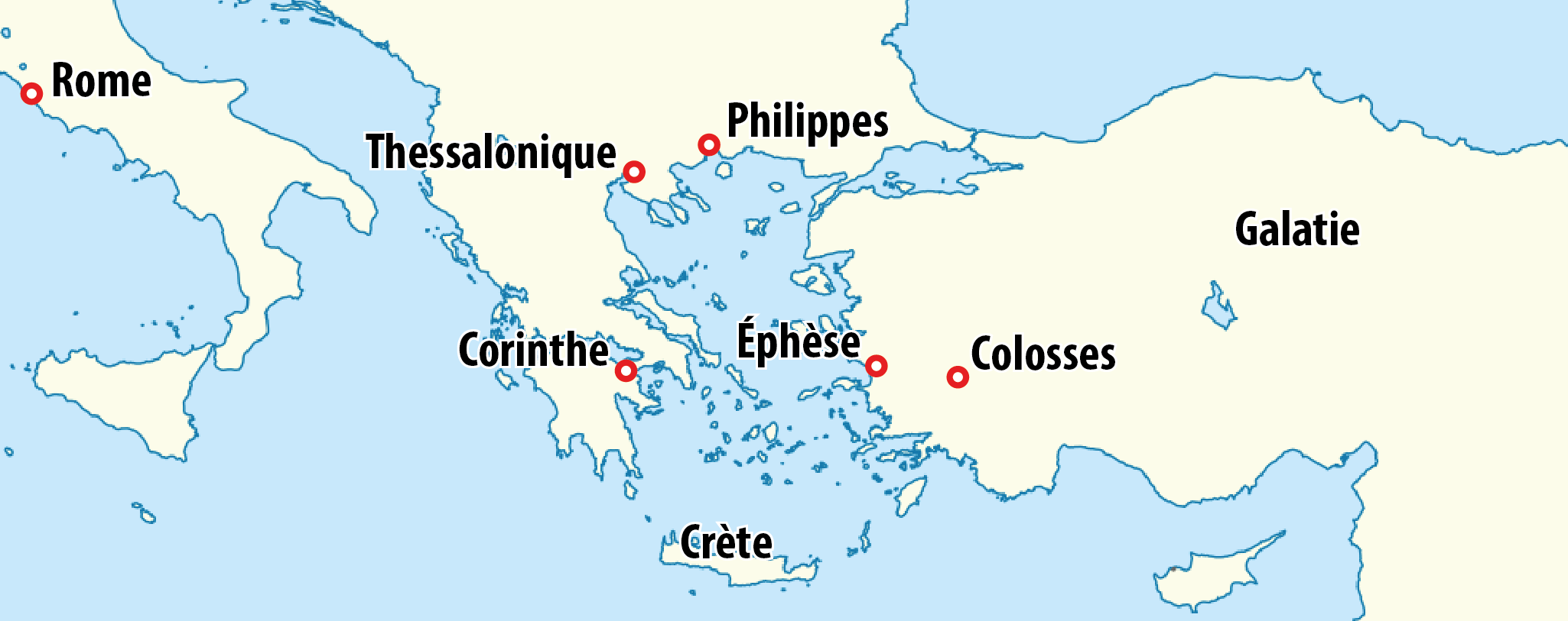 Map showing places where Pauline epistles were sent image background from Google Earth software (Image Landsat / Copernicus 2018 AfriGIS (Pty) Ltd). The use of such image is authorised by Google under its Fair Use policy upon correct acknowledgement. details